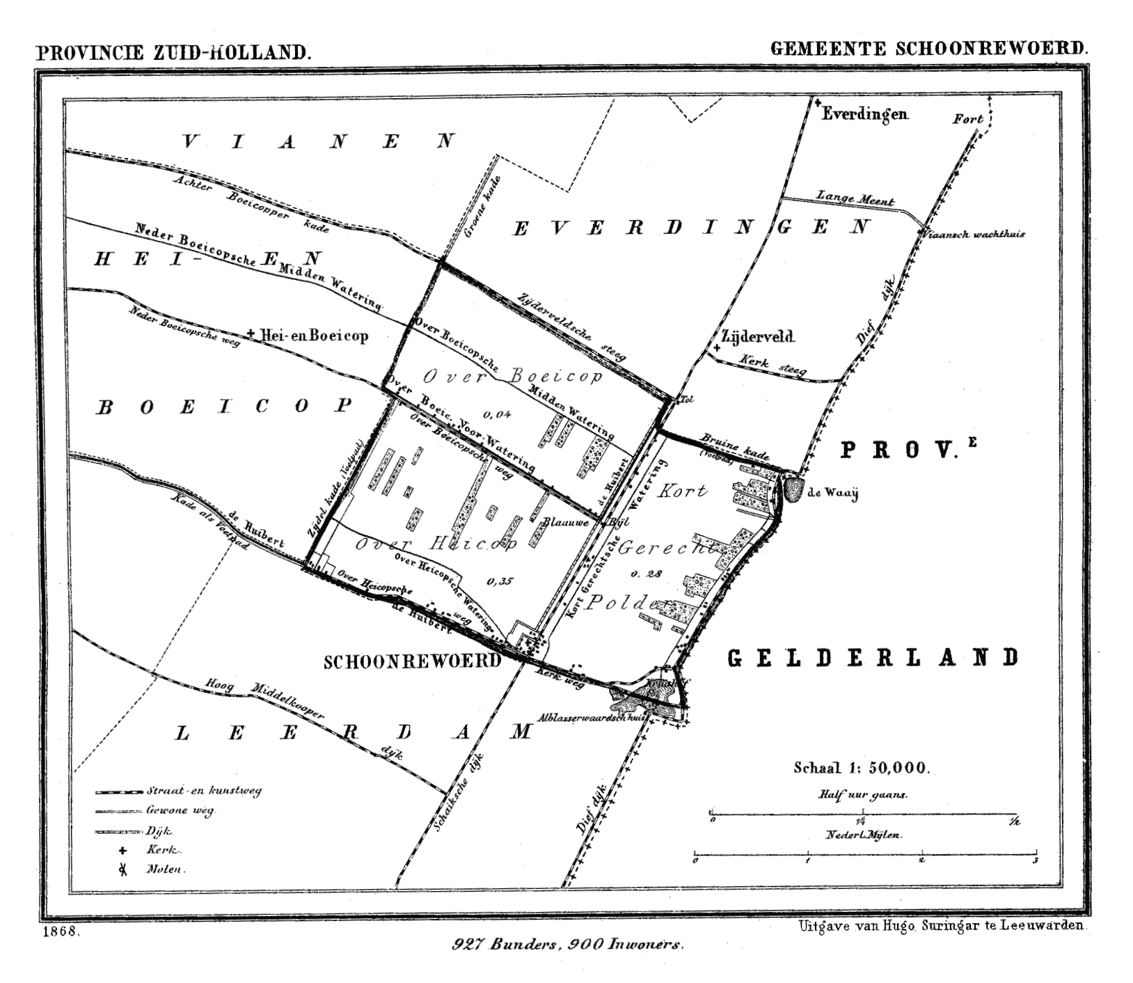 Historic map of Schoonrewoerd (now part of municipality Leerdam), South Holland, the Netherlands